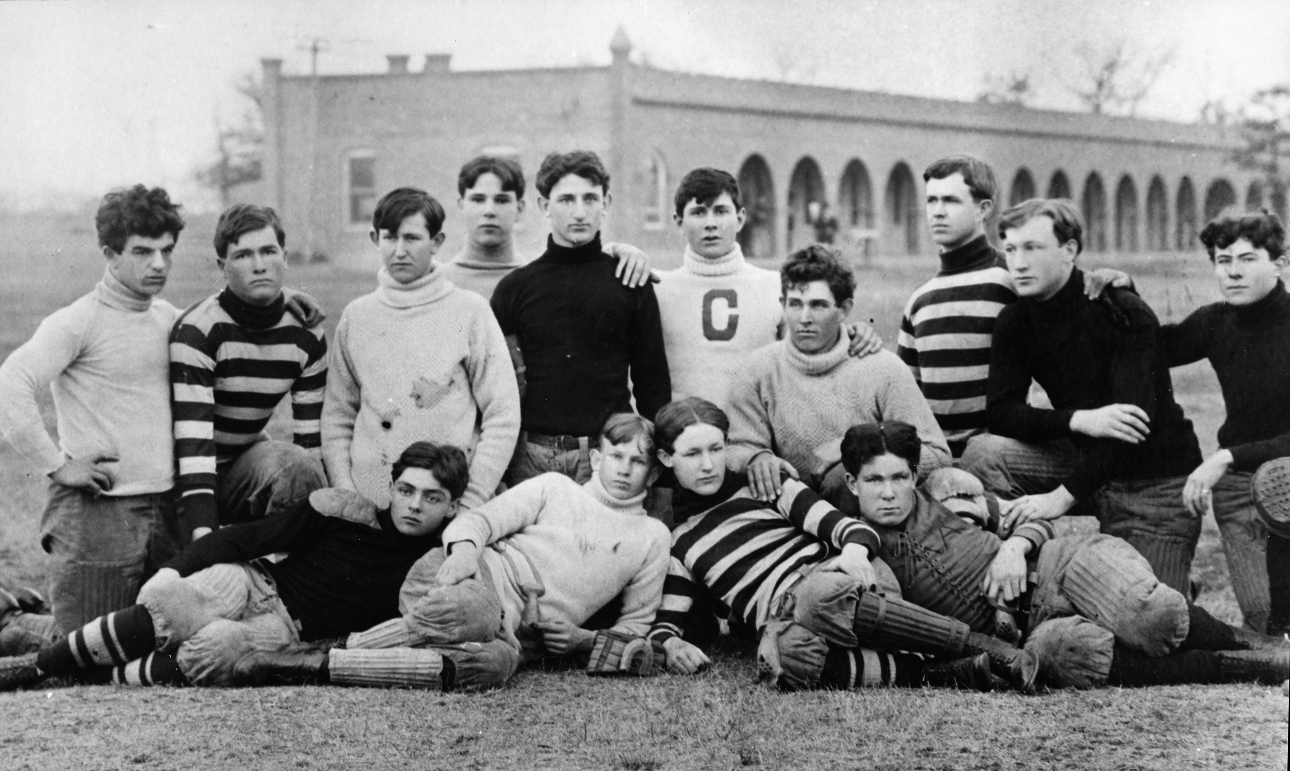 Carlisle Military Academy first football team, the Cravens, in uniform.